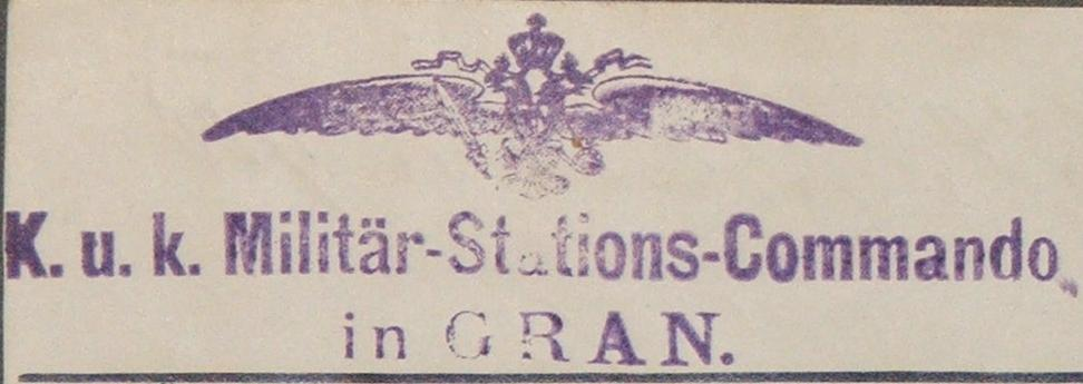 seal of the k.u.k. stationed in Esztergom (1900)